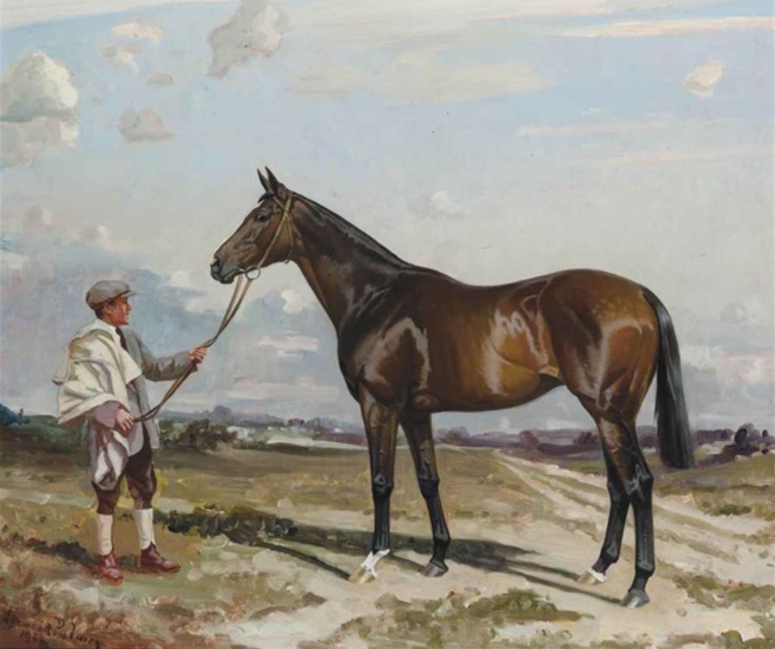 Golden Corn, by Lynwood Palmer (1868-1941). Golden Corn, who was originally called Maize but had a name change, was a good-looking bay or brown filly with a white blaze on her face and one white sock. She was foaled in 1919 and died in 1935, her sire was Golden Sun, her dam was Corncockle. She was bred by Robert Brassey, (1875 - 1946), MP for North Oxfordshire, and was owned by Marshall Field III (1893-1956), an American millionaire, heir to the Marshall Field department store fortune, founded by his grandfather Marshall Field I (1834-1906), one of the earliest patrons of the painter Lynwood Palmer. She was a brilliant two-year-old, winning all but one of her starts and was rated top of her generation in 1921. The following season she ran third in the 1,000 Guineas, failing to stay the trip, but came back to win the July Cup at four (although she had only one opponent). Golden Corn bred two winners, including Cornbelt (two races including the John Porter Stakes). She was also dam of Cross of Gold, sent to America and dam of six winners including Camelot, herself the dam of Blue Grass, who won the Kentucky Oaks for Marshal Field. She won the following races: 1921: Champagne Stakes, Doncaster; 1921: Middle Park Stakes, Newmarket; 1923: July Cup.(Source:[1])